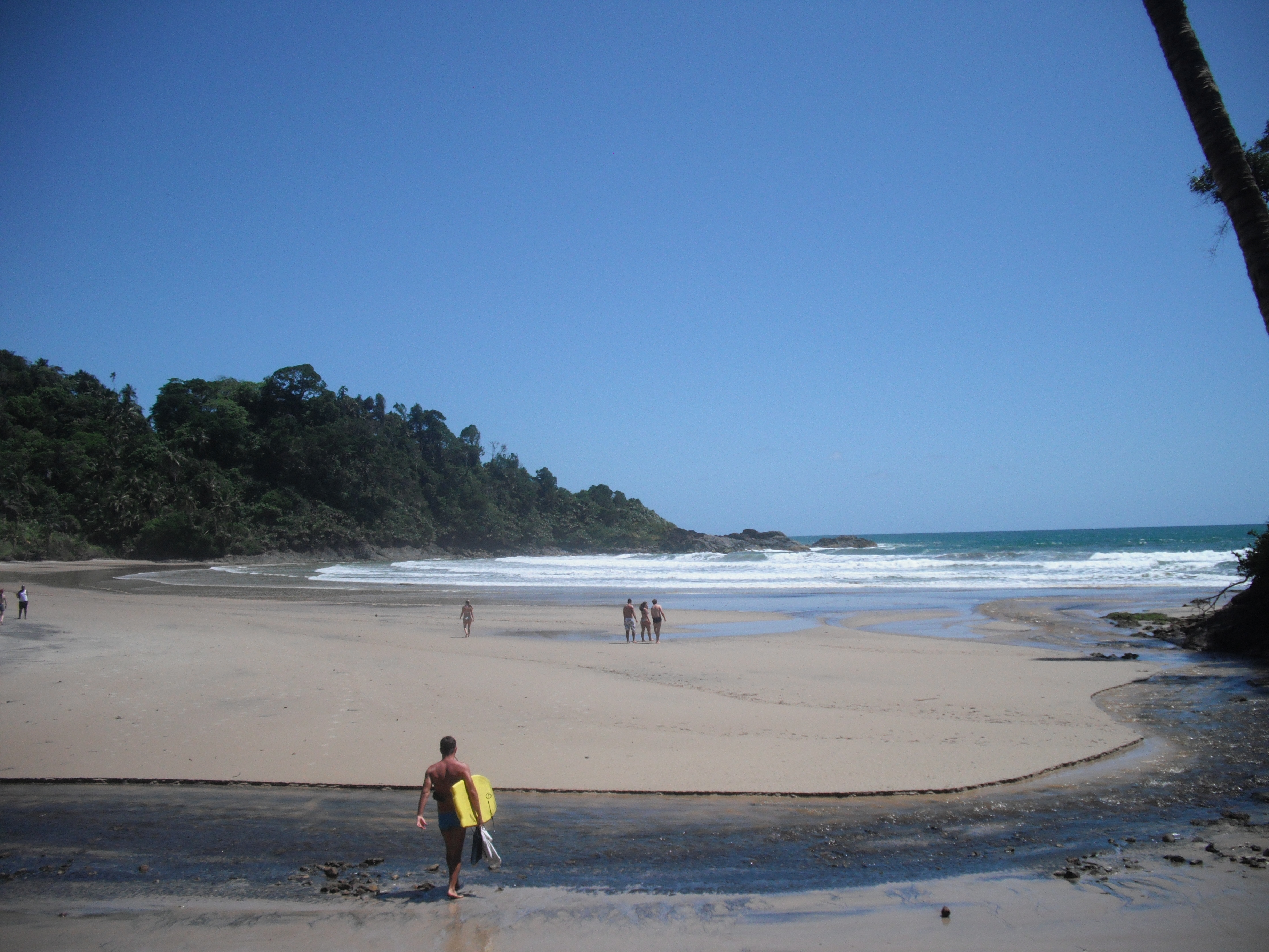 Engenhoca beach, Itacaré, Bahia, Brazil.